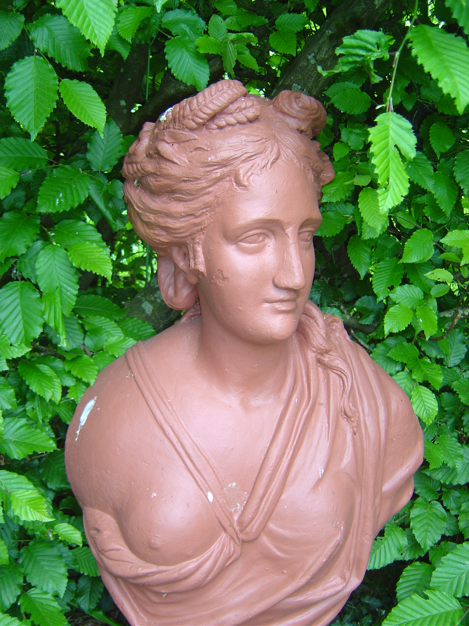 View in the castle of Freÿr (Waulsort) and its gardens (XVII/XVIIIth centuries) on statue of a fertility-goddess (Freya?) Zicht in het kasteel van Freÿr (Waulsort) en zijn tuinen (XVII/XVIIIde eeuwen) op het beeld van een vruchtbaarheidsgodin (Freya?)